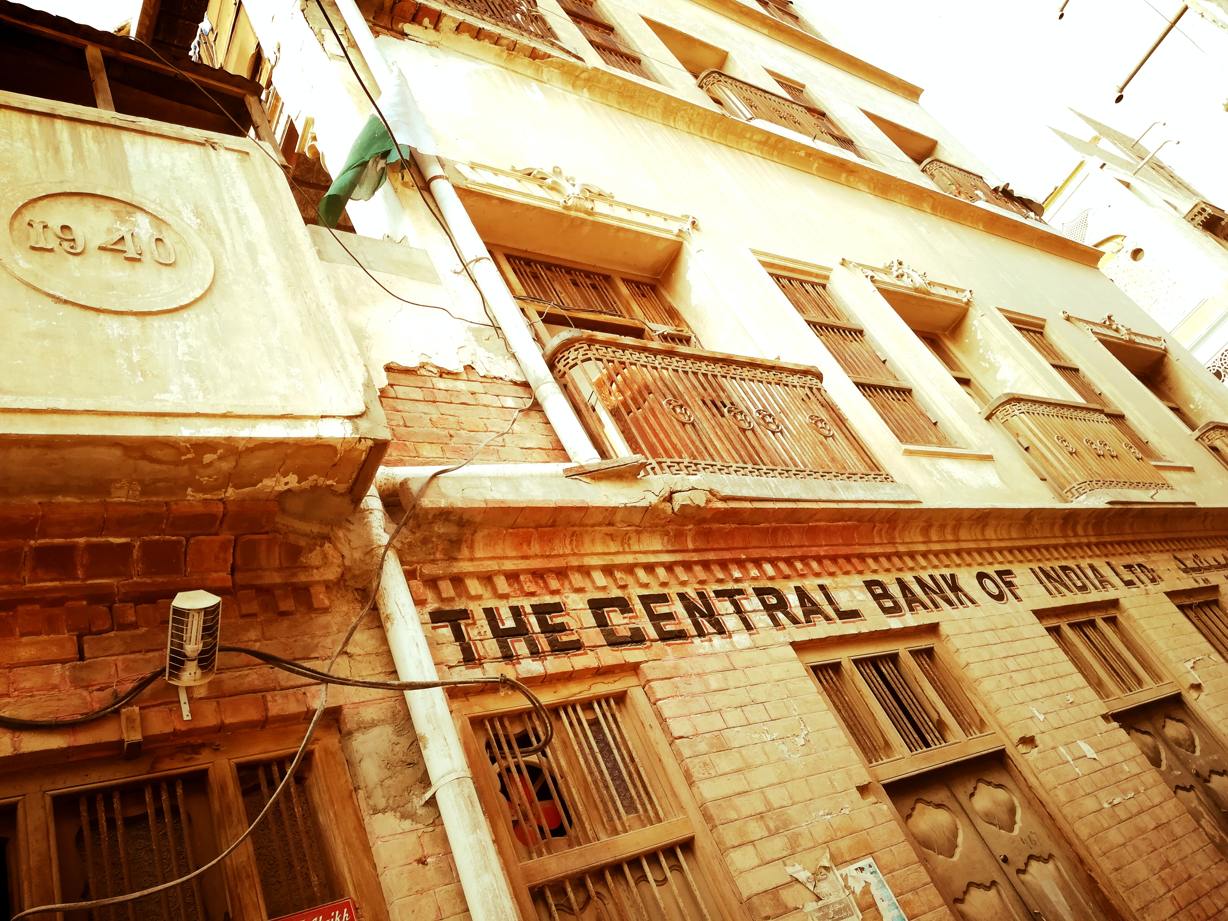 Central Bank of India building in Shikarpur, Sindh سنڌي: سينٽرل بينڪ آف انڊيا جي شڪارپور، سنڌ ۾ عمارت 1940ع ۾ قائم ٿيل